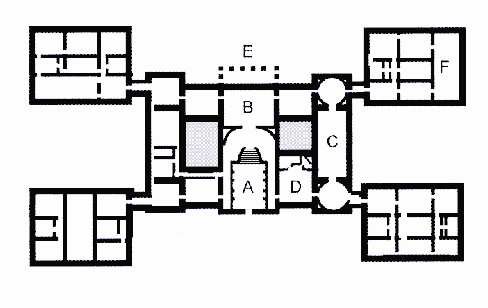 Holkham Hall, Norfolk, England Simplified sketch plan, not to scale of original by William Kent circa 1735. First uploaded in English Wikipedia as (15:36, 3 December 2004 . . Ragussa)